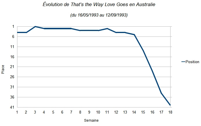 Evolution in the Australian singles chart of Janet Jackson's song, That's the Way Love Goes.